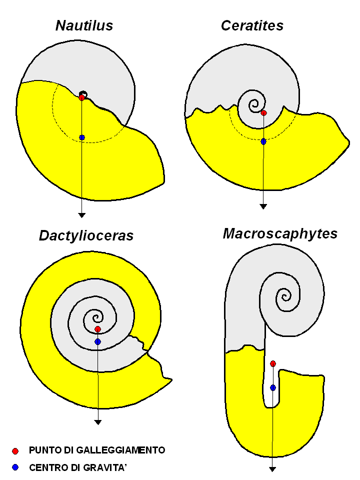 Position of the center of gravity and center of buoyancy for Nautilus and some ammonite genera, and probable life position. The body chamber is highlighted in yellow. After Trueman (1941), modified. Text in italian.